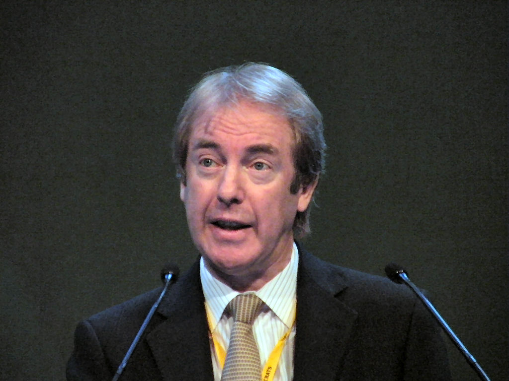 John Barrett MP addressing a Liberal Democrat conference in the Bournemouth International Centre